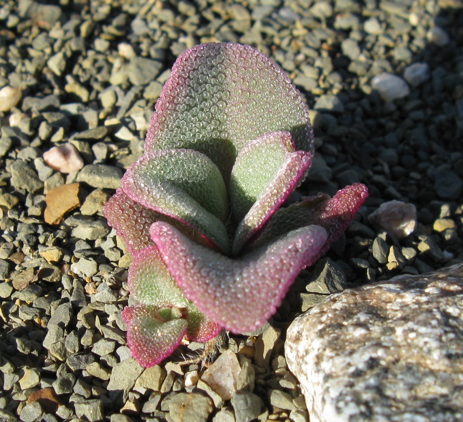 cropped version of Mesembryanthemum_guerichianum_seedling_IMG_8167.JPG